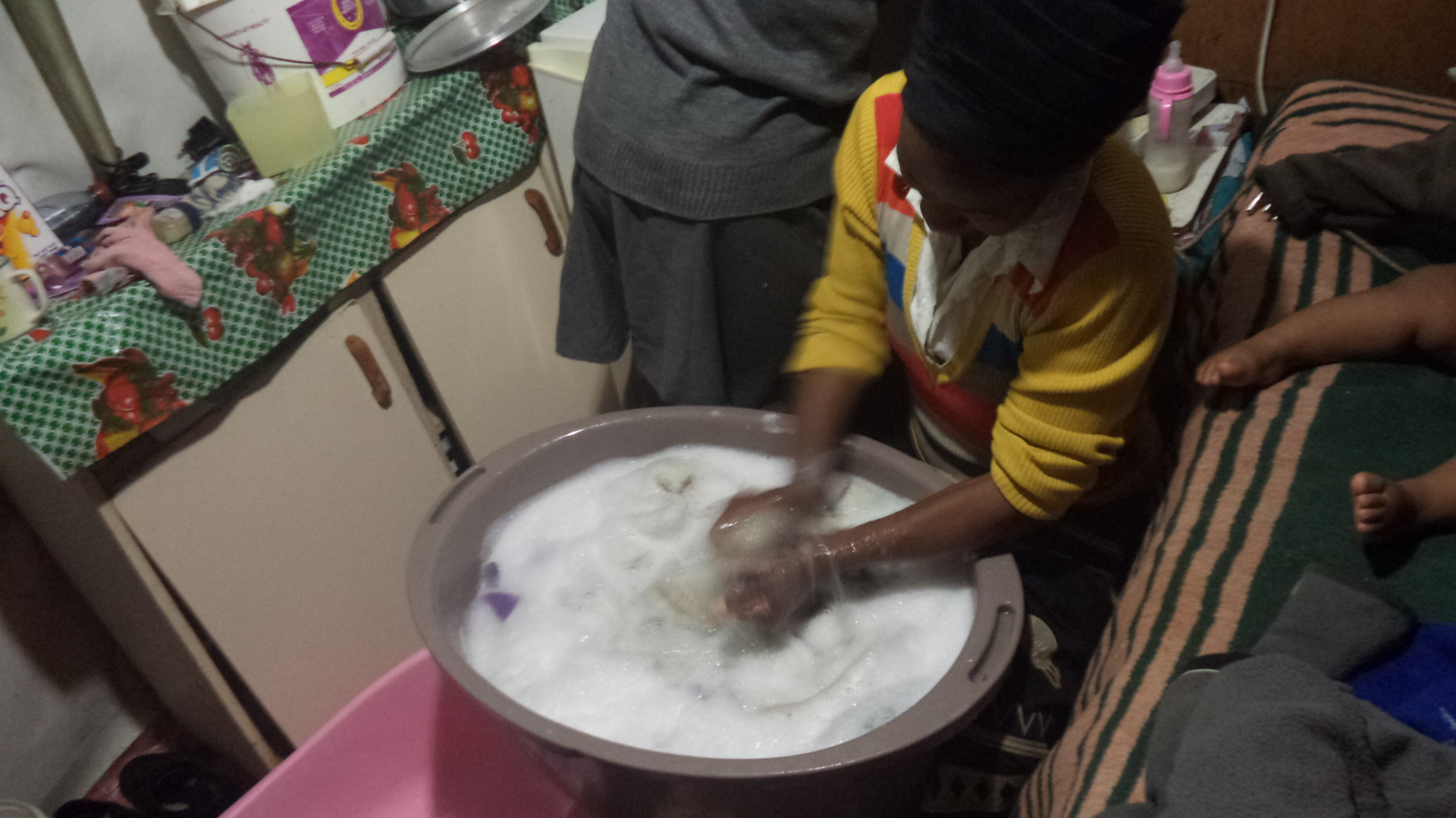 she is washing the clothes early in the morning in a small shack